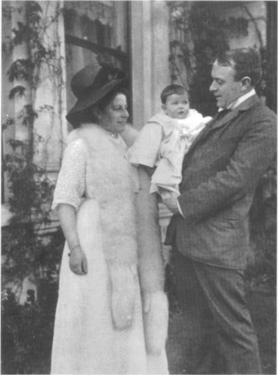 Thomas Andrews with his wife, Helen Reilly Barbour, and daughter, Elizabeth Law Barbour Andrews